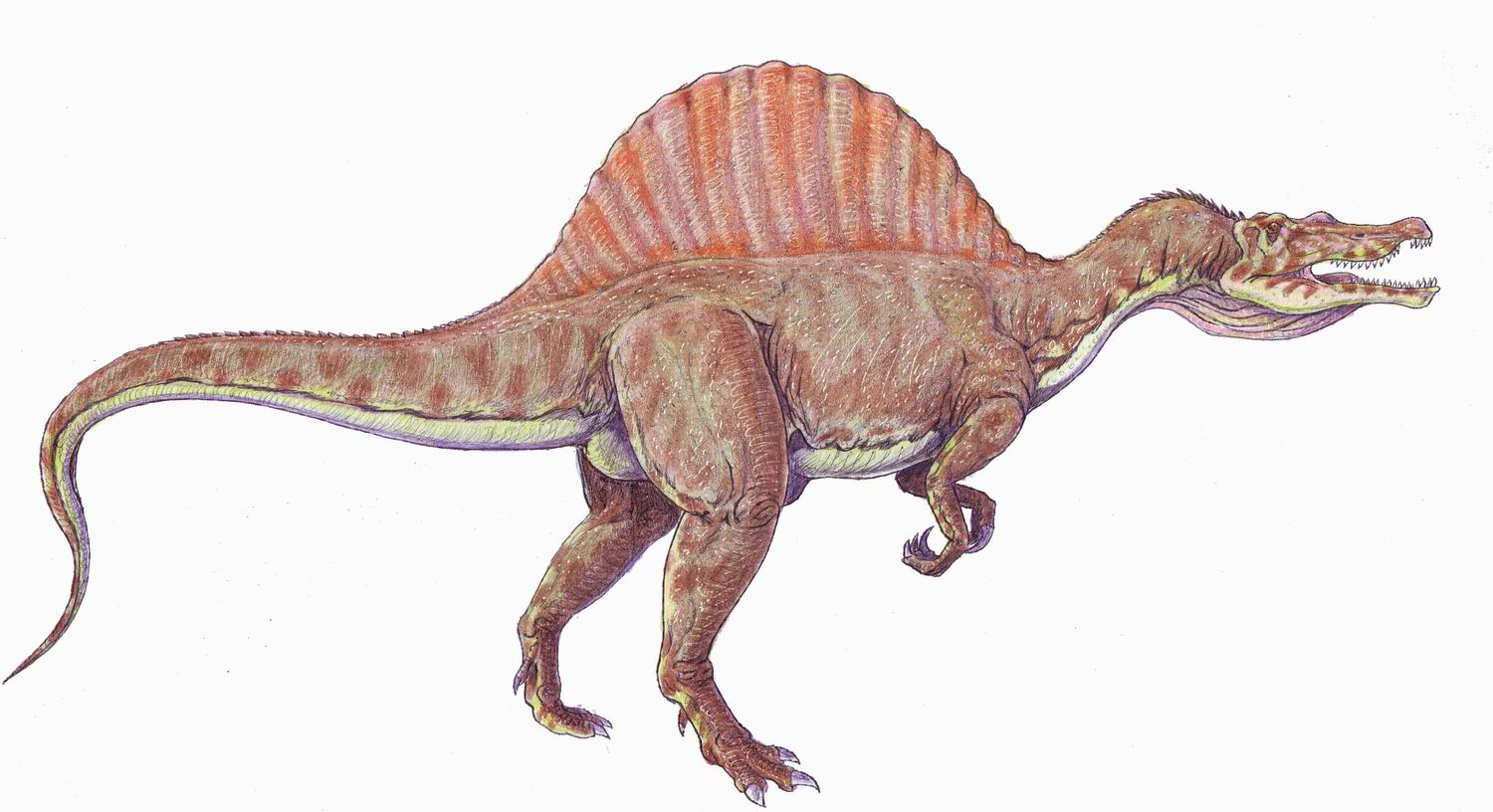 Anatomically incorrect restoration of Spinosaurus aegipticus